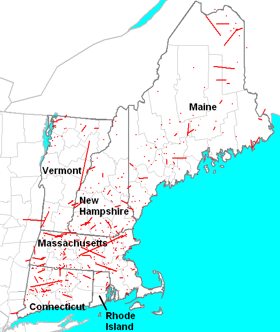 Approximate tracks of all tornadoes which affected New England from 1950 through 2006. Derived from an image created using SeverePlot, free software maintained by John Hart, lead forecaster for the Storm Prediction Center.